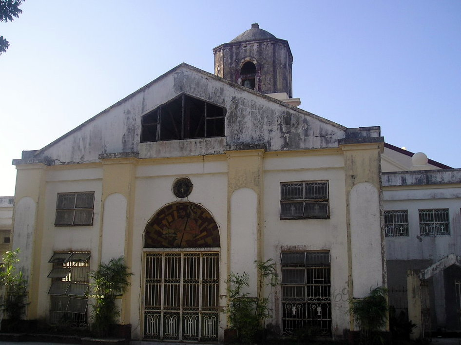 Daet's old St. John the Baptist Cathedral.